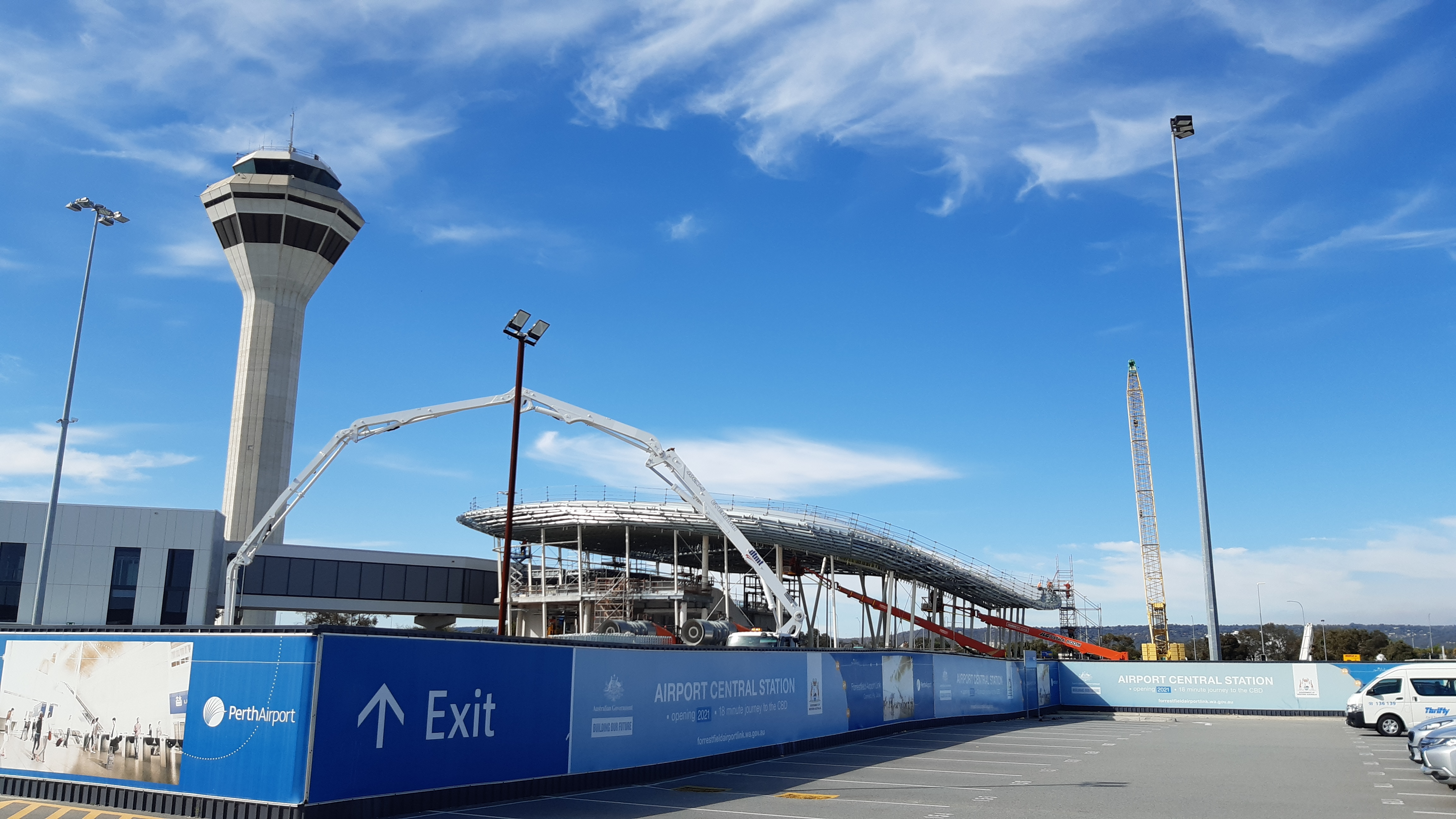 The Airport Central railway station under construction at Perth Airport, Western Australia, seen from the west.The Perth Airport control tower can be seen to the left of it.